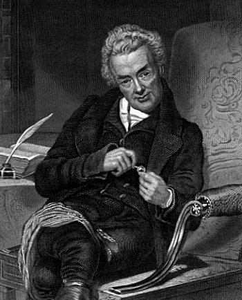 "Courtesy of the University of Texas Libraries, The University of Texas at Austin." [1]